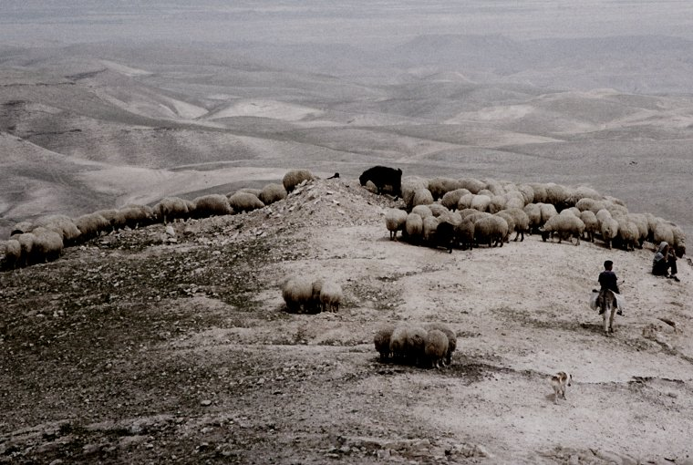 Montar Mountion, known as the place the azaze'l Sacrifice was thrown from, at the days of the Second Temple, on yom kippur. taken by יואב רוזנברג